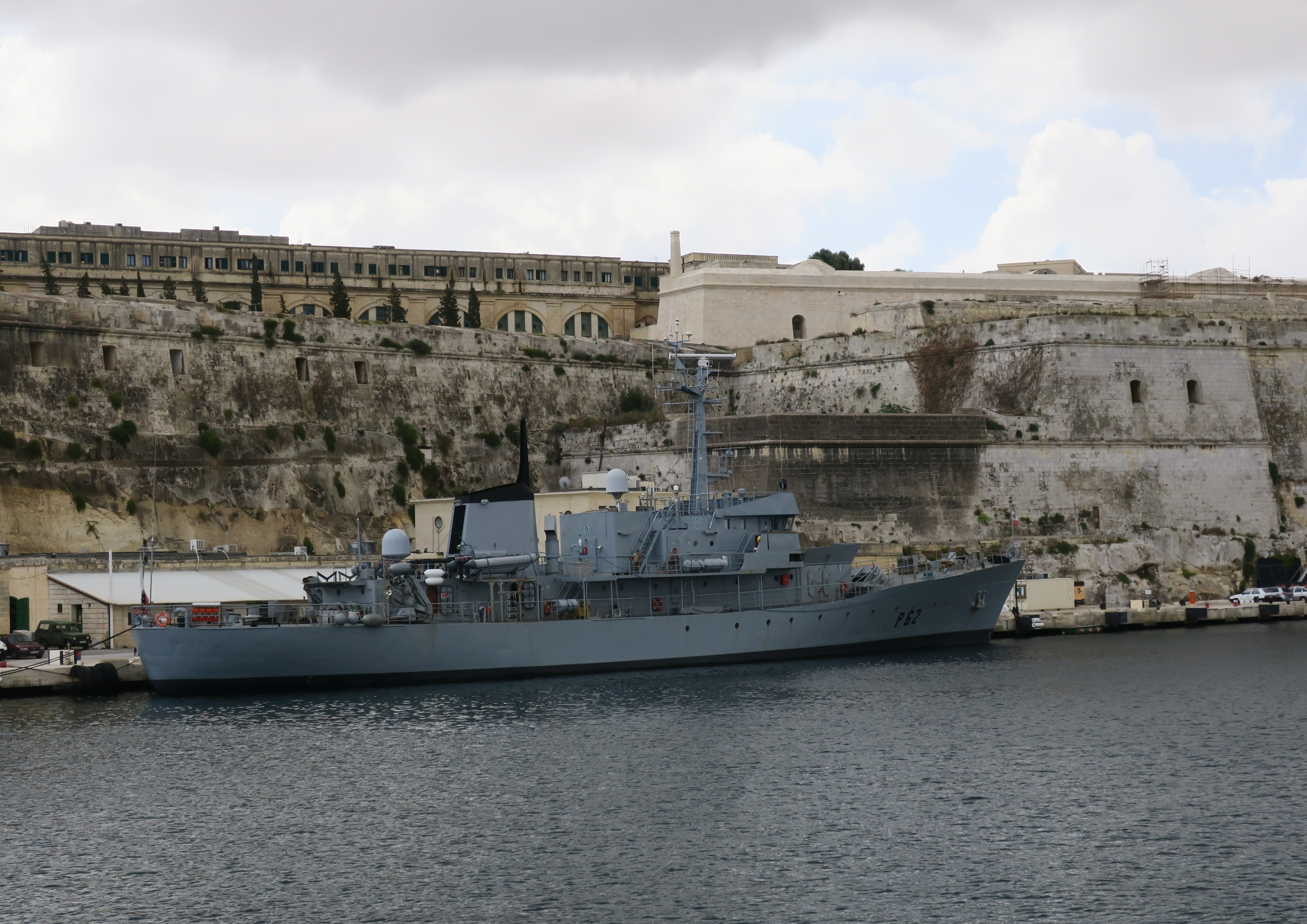 Malta Navy boat with the designation P62.